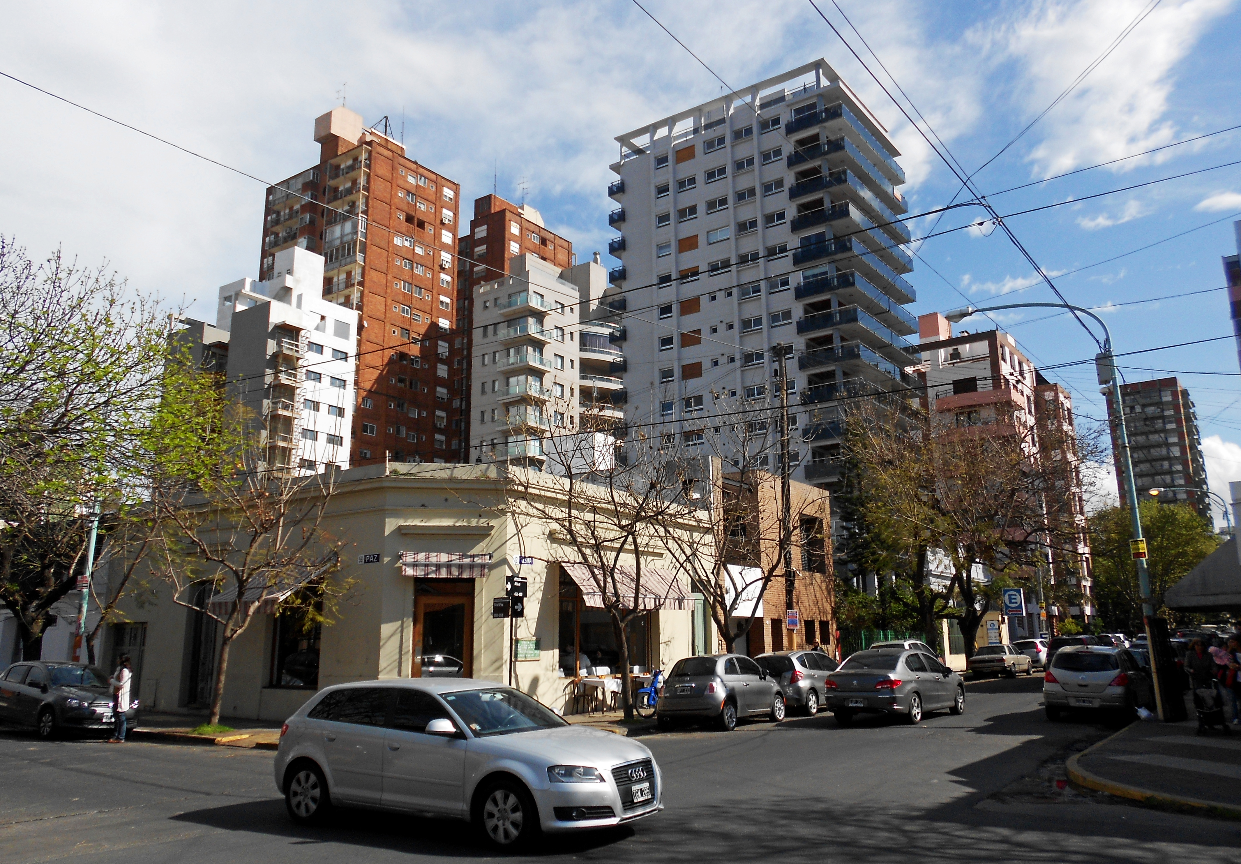 Intersection of Paz and Alsina Streets in the downtown Quilmes. The Novo III Building, designed by Rubén Gabastón and completed in 2008, in the center of the photo; the building is known as one of a few in the country to have preserved the fa­­çade of the vintage house formerly on its lot.